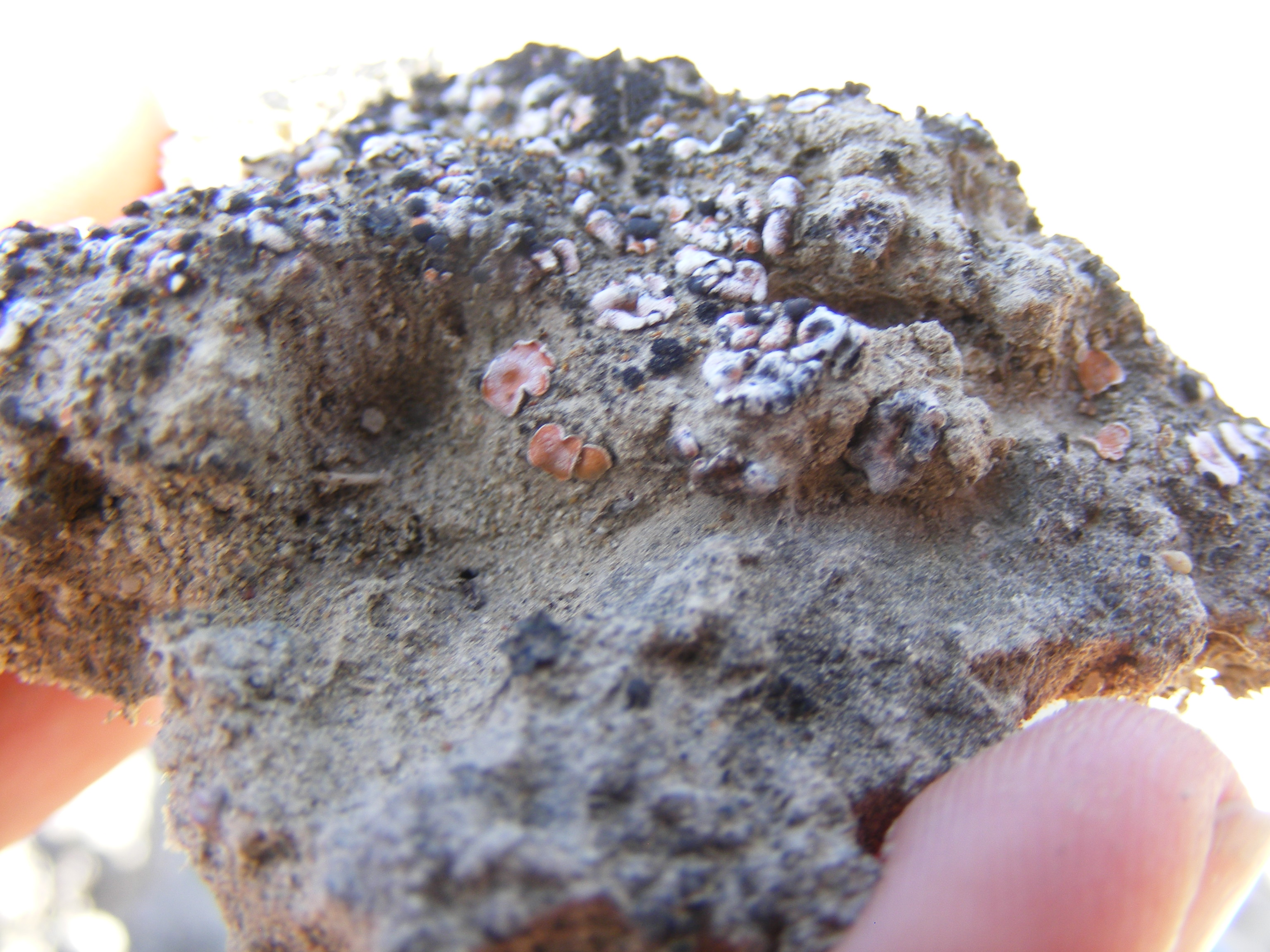 Psora crenata (Taylor) Reinke Image location: Reserva de Vida Silvestre San Pablo de Valdés, Chubut Province, Argentina Substrate: soil, silty, probably calcium from fossilized sea shells. Habitat: Arid. Dunes, about 20m from shore. Underneath shrubs, particularly Chuquicaya avelloneda). Description: Pink pruinose squamules, upturned, white underside, black globose apothecia, primarily laminal. Recognized by sight: convex pink pruinose squamules For more information about this, see the observation page at Mushroom Observer.